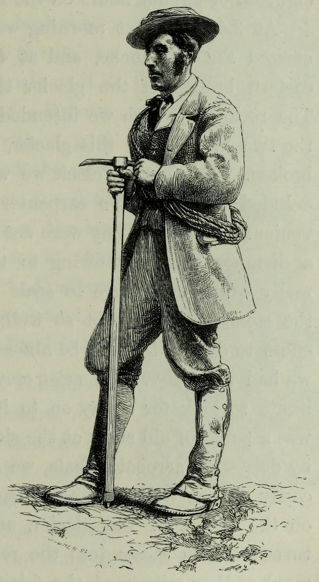 Image on page 235 of Scrambles amongst the Alps